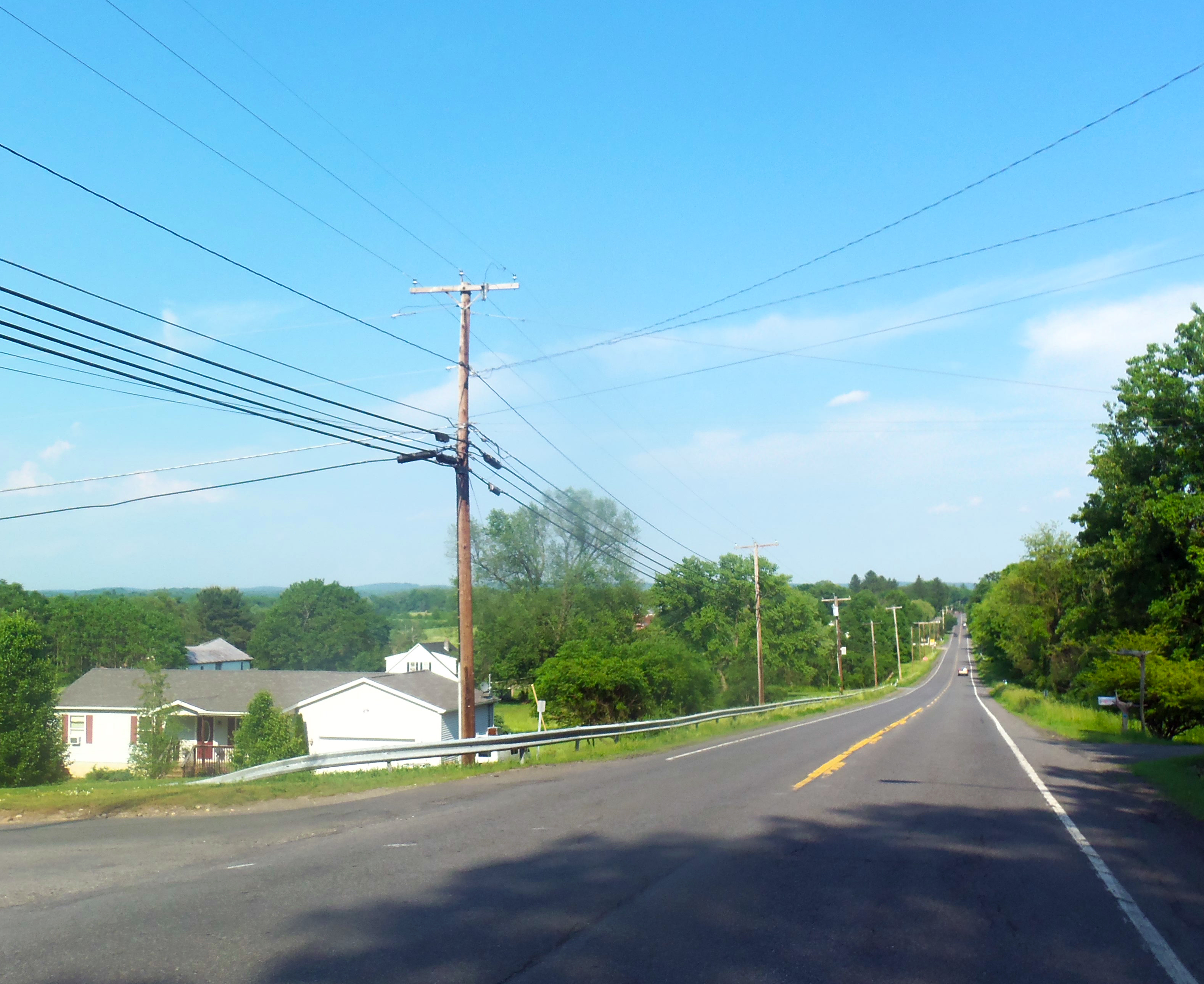 Looking east towards the village of Red Hook, NY, USA, along NY 199 from the intersection of Meadow Drive in the town of Red Hook.